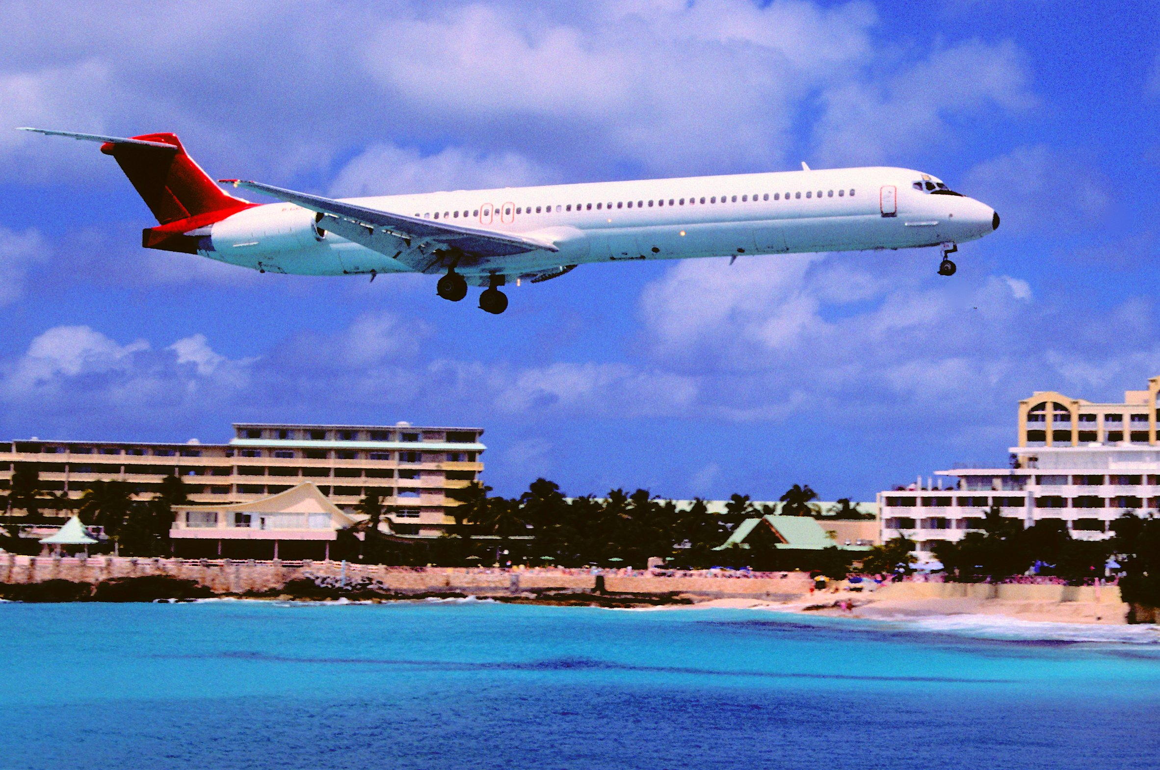 284av - DCA - Dutch Caribbean Airlines MD-82; PJ-SEH@SXM;06.03.2004